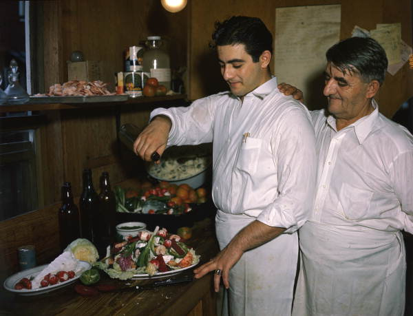 Persistent URL: Local call number: JJS0918 Title: Louis and Michael Pappas preparing Greek salad at Riverside Cafe in Tarpon Springs, Florida Date: April 12, 1947 Physical descrip: 1 transparency - col. - 4 x 5 in. Series Title: Repository: 500 S. Bronough St., Tallahassee, FL 32399-0250 USA. Contact: 850.245.6700.